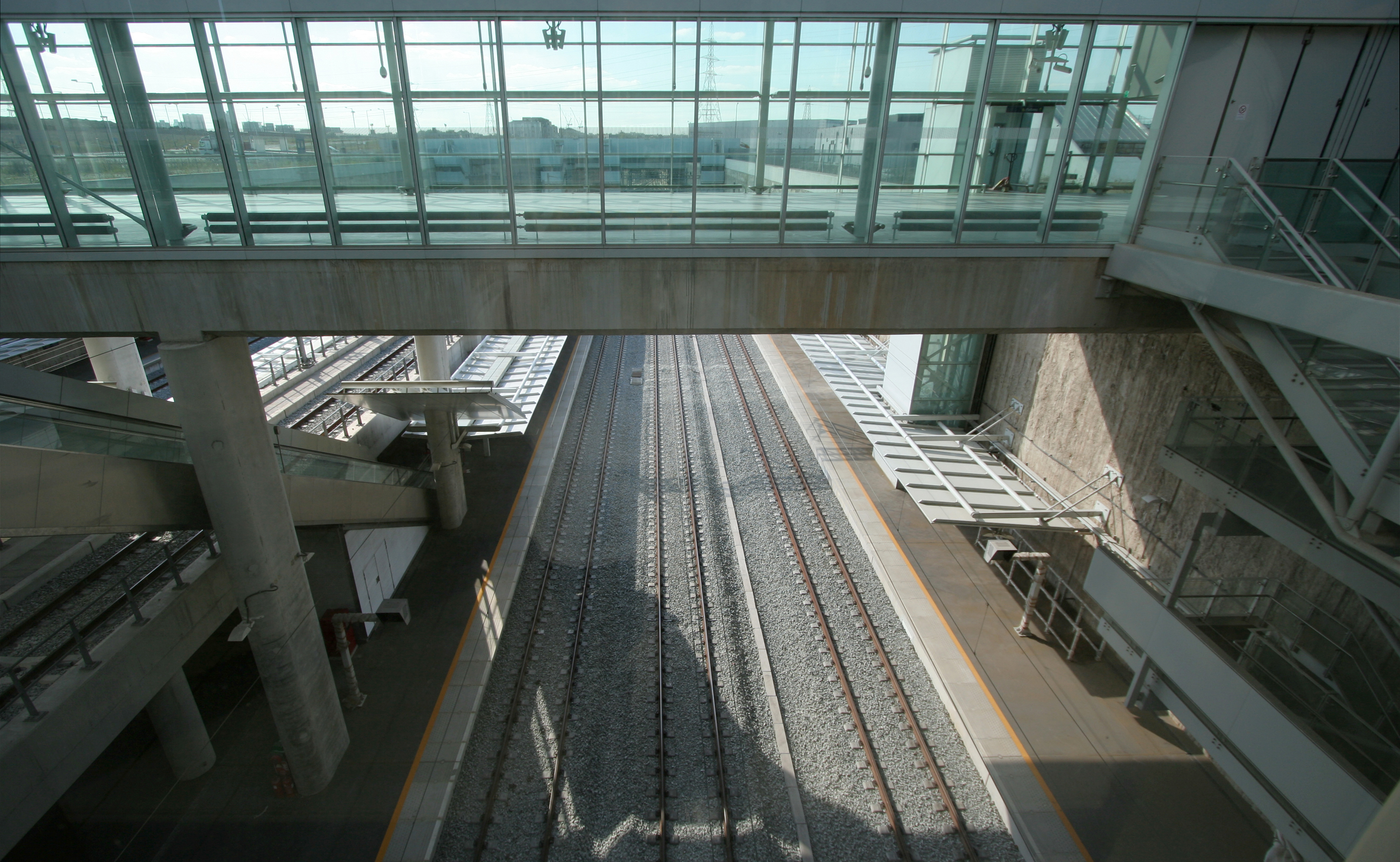 Platforms at Stratford International Station in London from Departures Hall. Taken at London Open House Weekend, more than two years prior to opening to passengers.